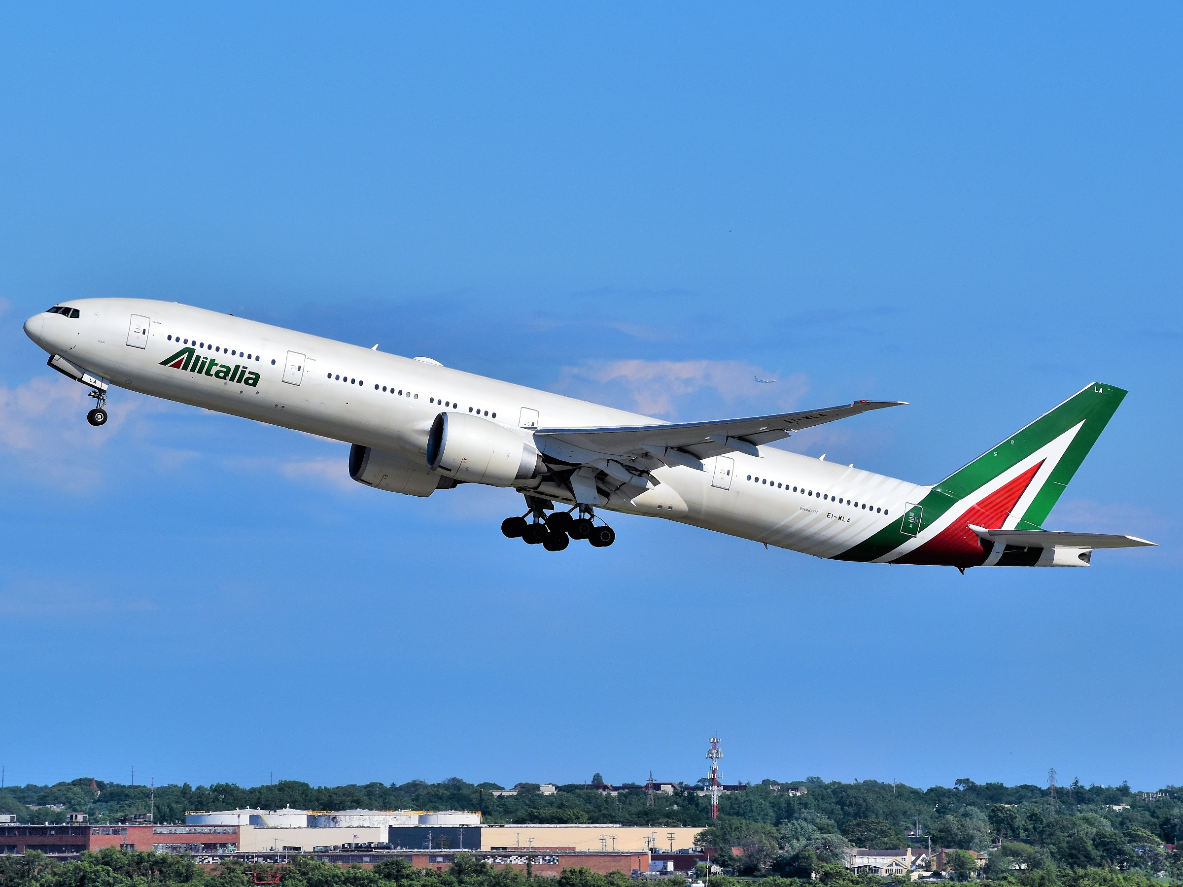 An Alitalia Boeing 777-300ER is taking off from Runway 4L at John F. Kennedy International Airport as Flight AZ609.